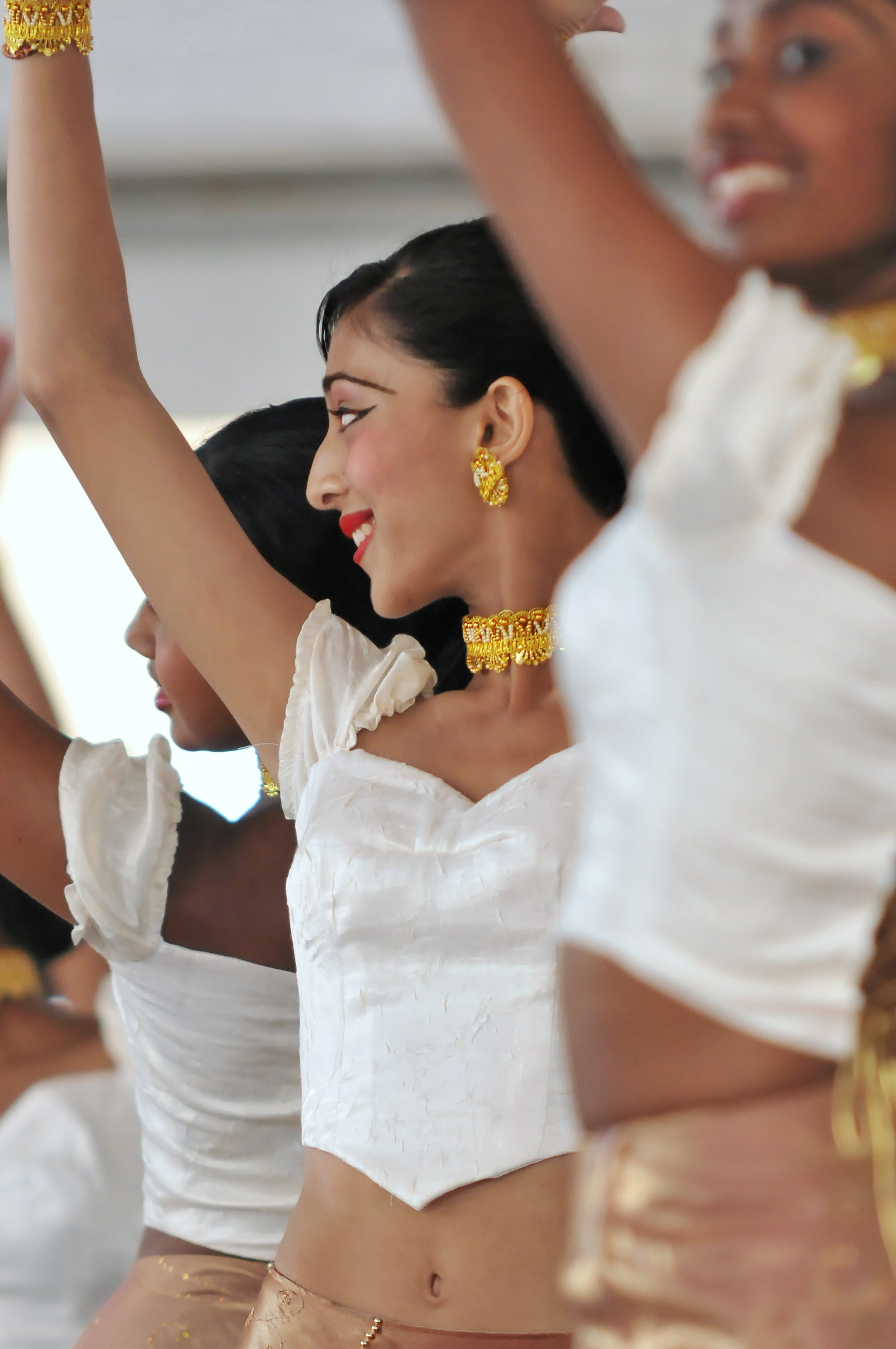 Traditional Sri Lankan dance. Sri Lankan Friendship Association of BC. Langley International Festival 2010.